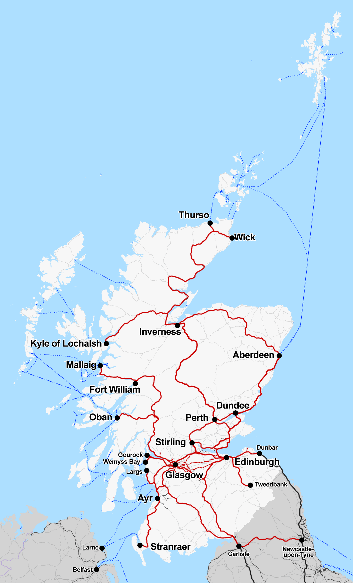 Map of the rail routes of Scotland in 2018, shown in red This map may be incomplete, and may contain errors. Don't rely solely on it for navigation.